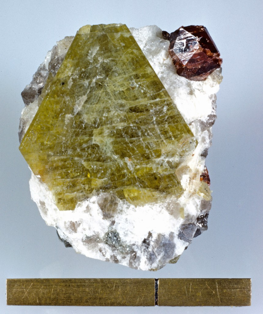 Chrysoberyl, Spessartine Locality: Chrysoberyl locality, Haddam, Middlesex County, Connecticut, USA Chrysoberyl & Spessartine. Neil Yedlan Collection (1972). Scale at bottom of image is an inch with a rule at one cm.